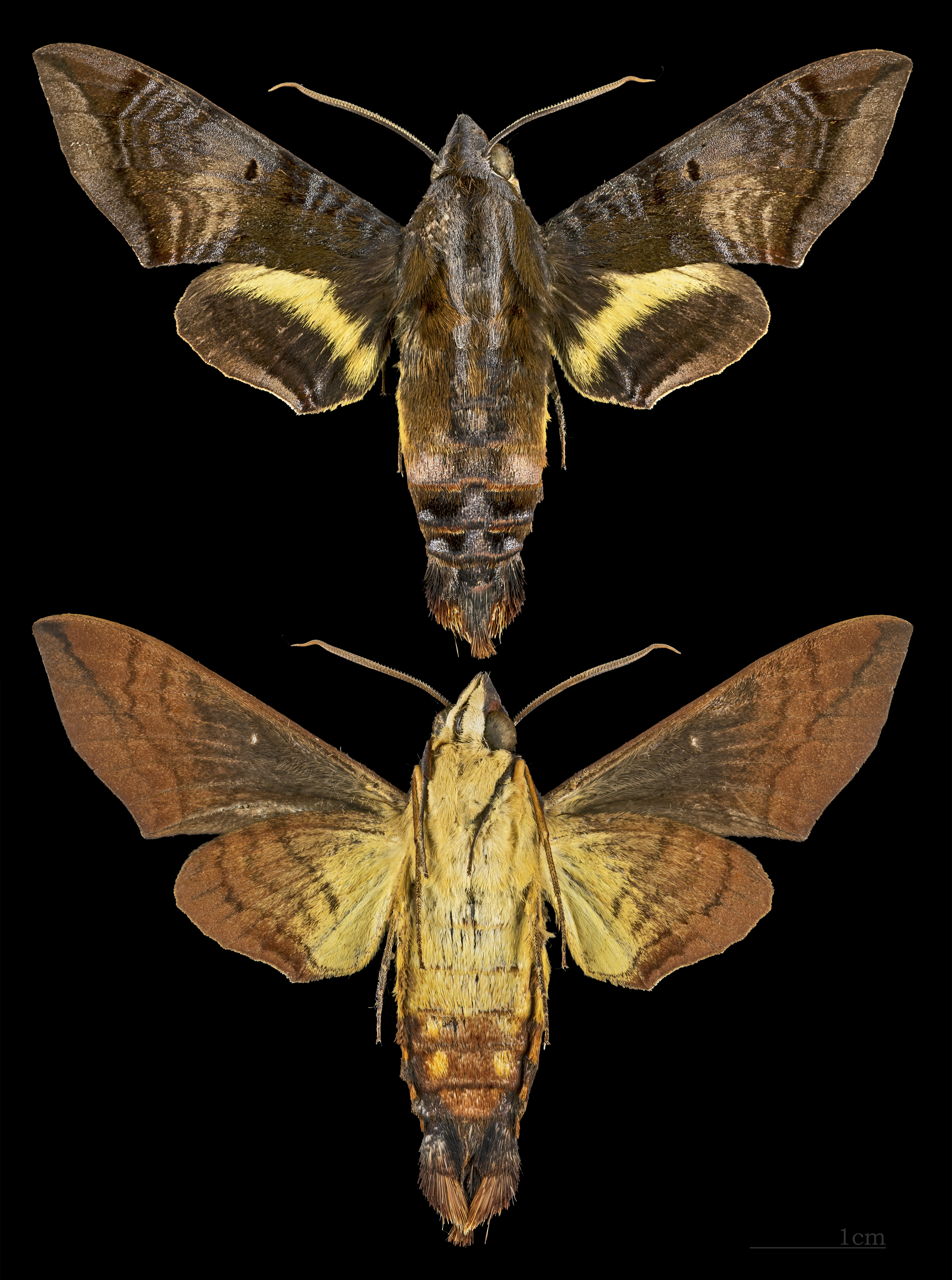 Eupyrrhoglossum venustum - Two views of same specimen Collection of the Mathematician Laurent Schwartz